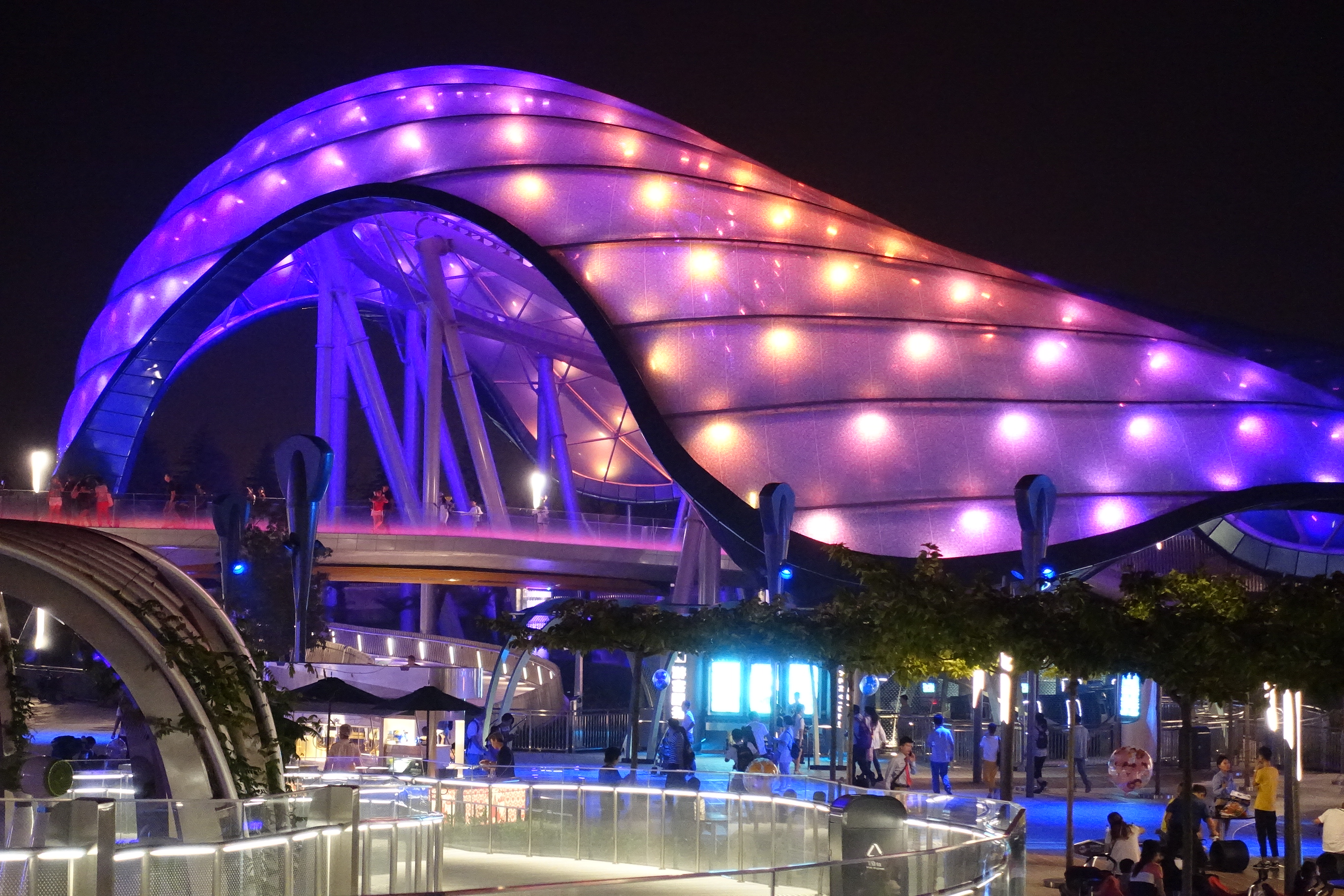 Tomorrowland